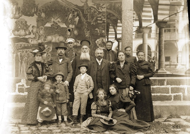 Mihail Madzharov and Sava Bobchev in Rila Monastery 1897